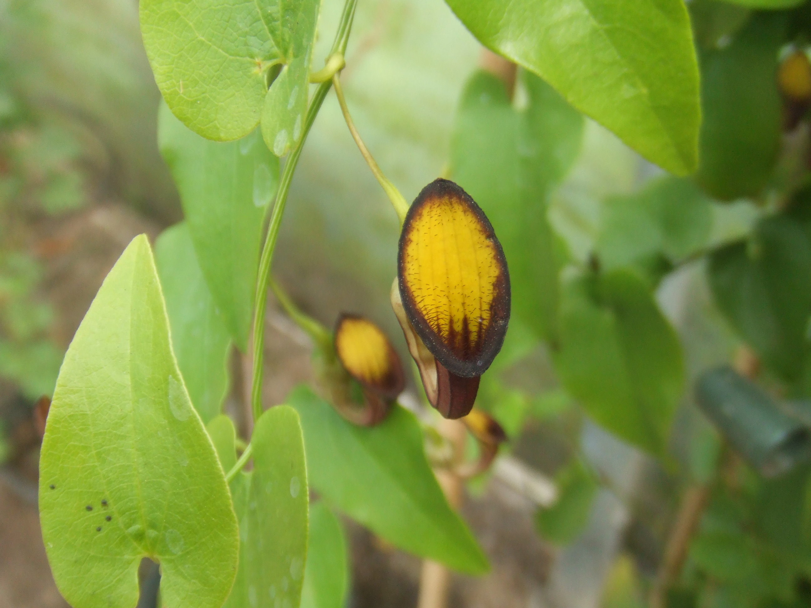 Aristolochia sempervirens, picture taken at the Passiflorahoeve Butterflygarden Harskamp, The Netherlands